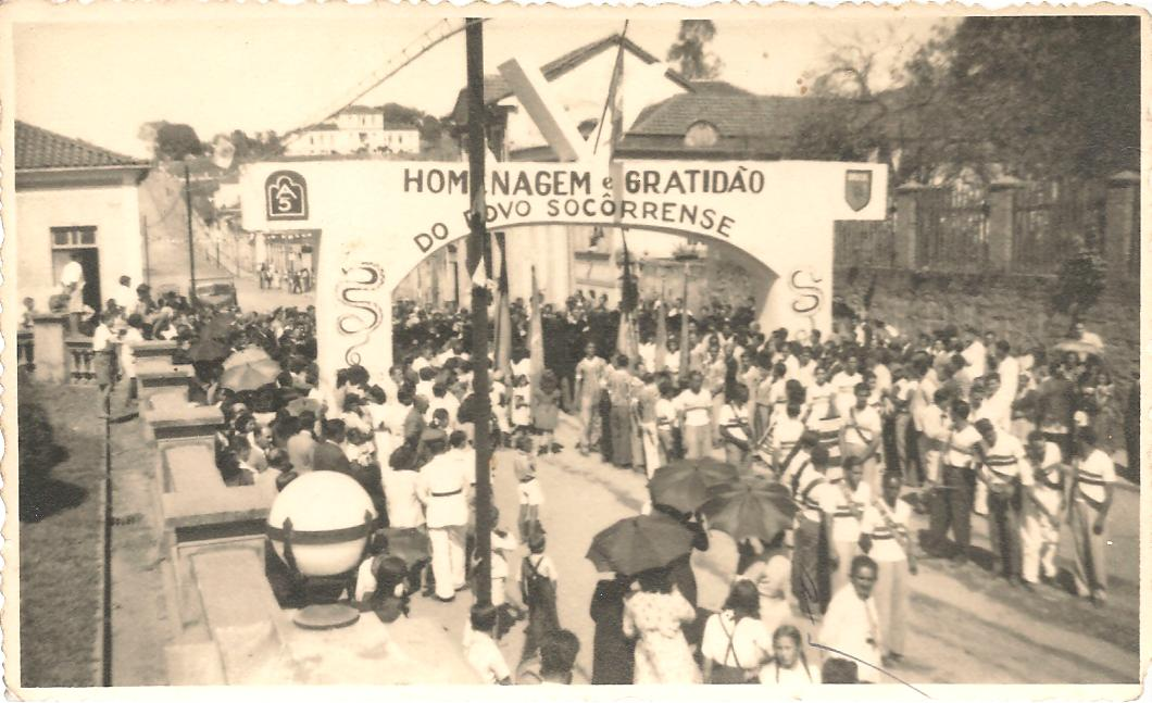 14/08/1945. Arrival of the soldiers. Front street Campos Salles. Portal Welcome in front of old city.